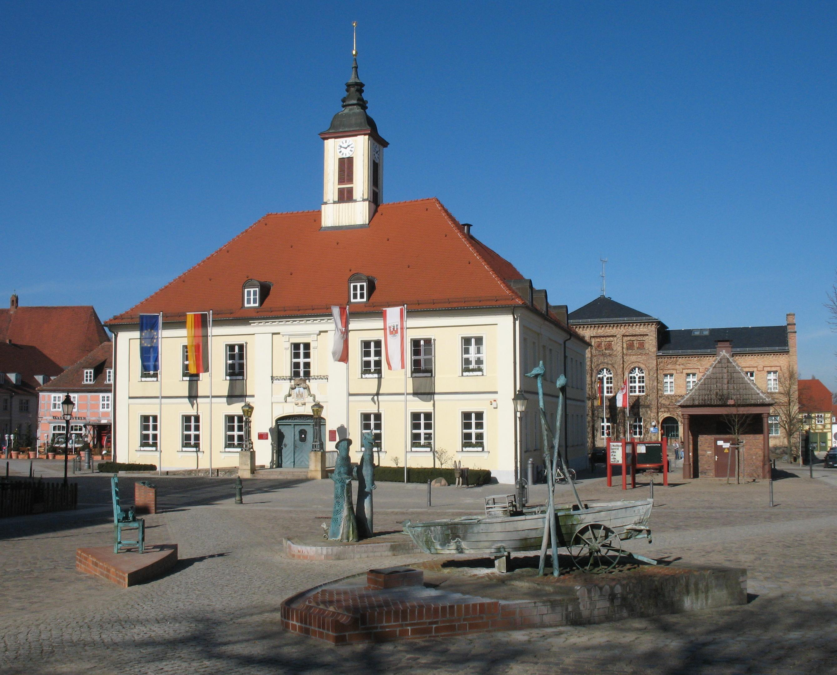 Fountain by Christian Uhlig and town hall in Angermünde in Brandenburg, Germany